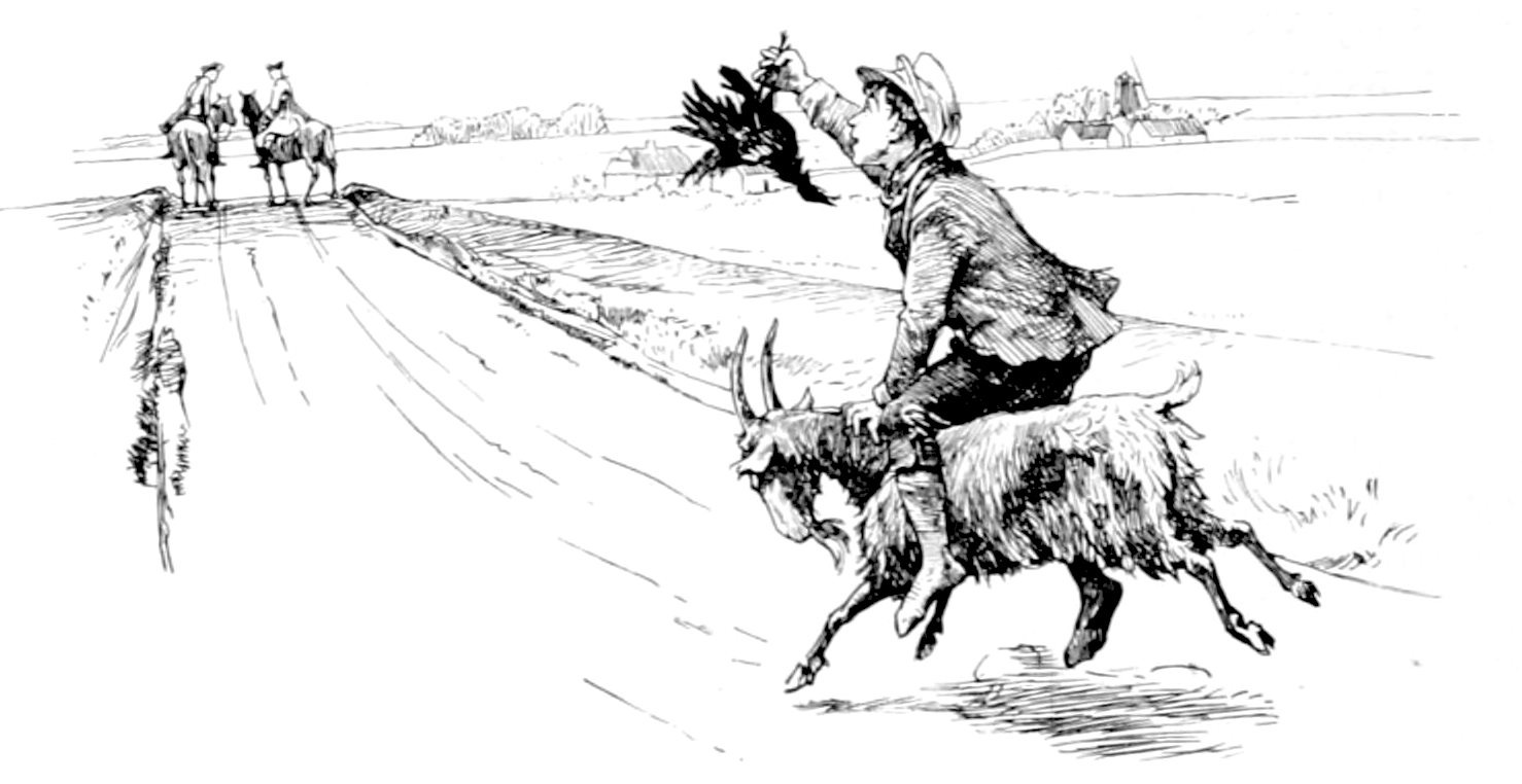 Scan of illustration in Fairy tales and stories (1900). Andersen, H. C. (Hans Christian), 1805-1875; Tegner, Hans, b. 1853, ill; Brækstad, H. L. (Hans Lien), 1845-1915 New York: The Century Co.